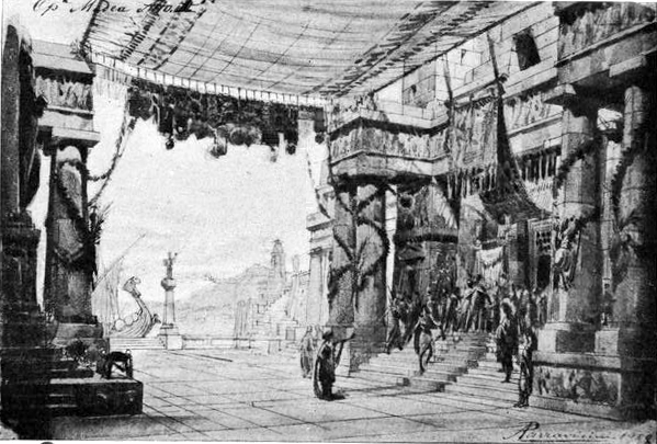 Luigi Cherubini - Medea - Milan 1909 - act 1